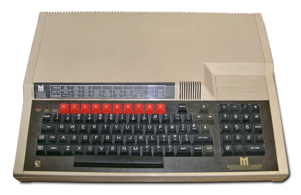 BBC Master Series Mirocomputer by Acorn Computers. (White background).